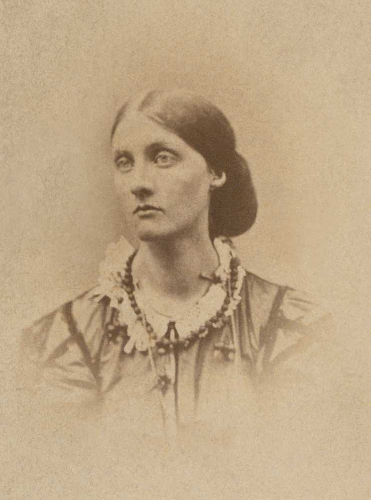 Photo of Julia Duckworth, by unknown photographer n.d.